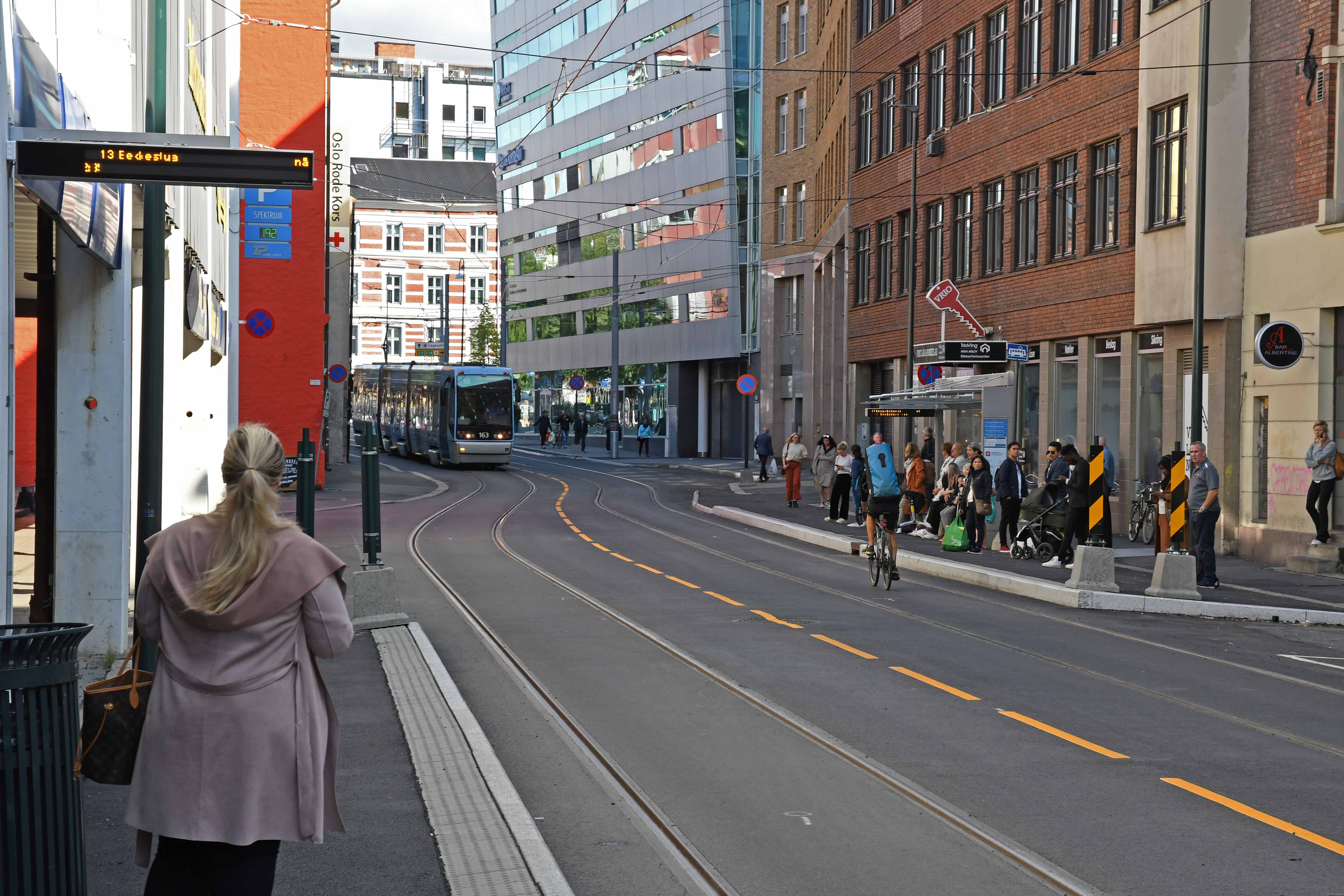 Lilletorget tram stop, opened Sept 2, 2019, and running until new tram stop in Storgata will be opened in 2021.